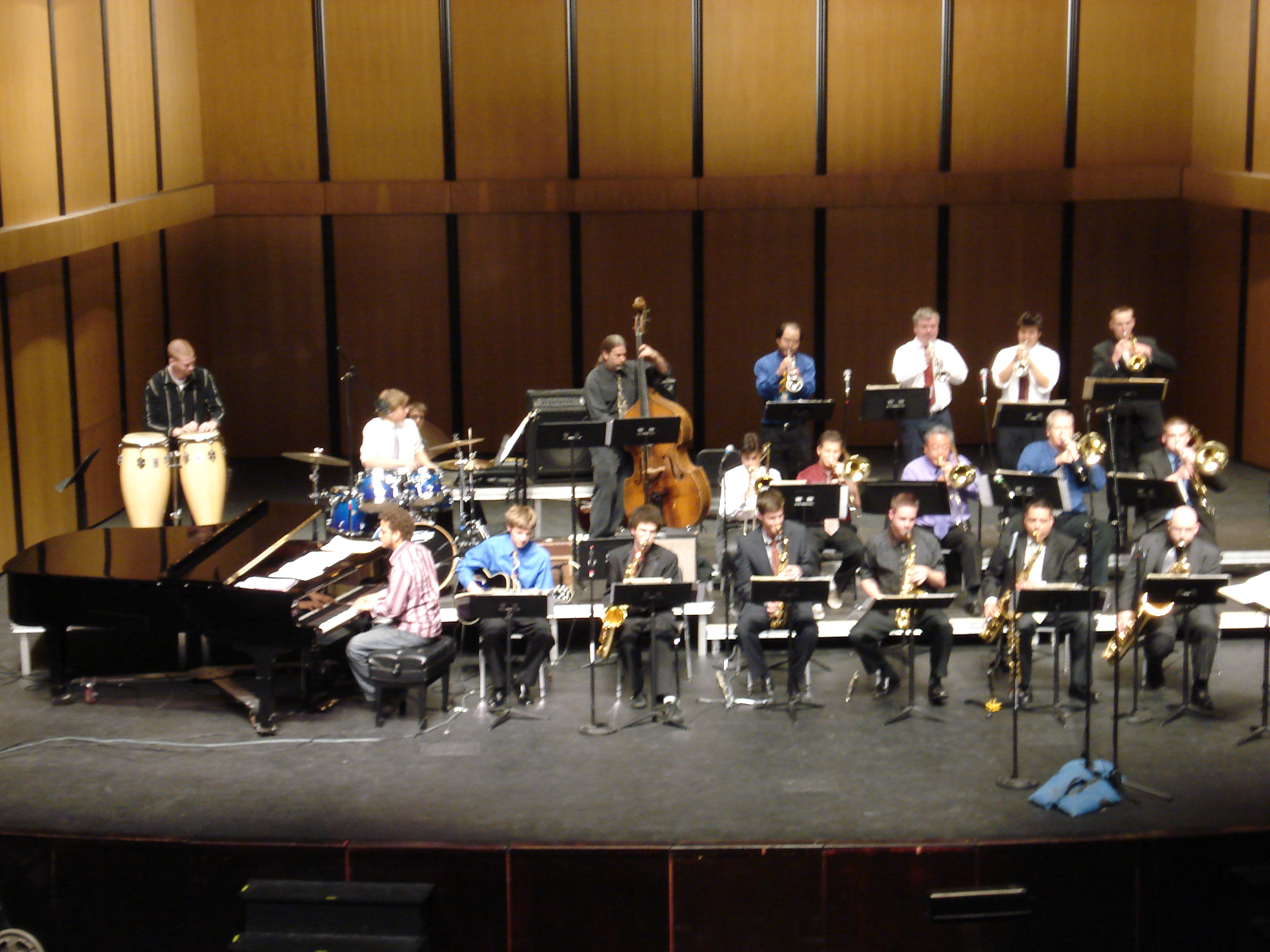 The Moorpark College Jazz A Band